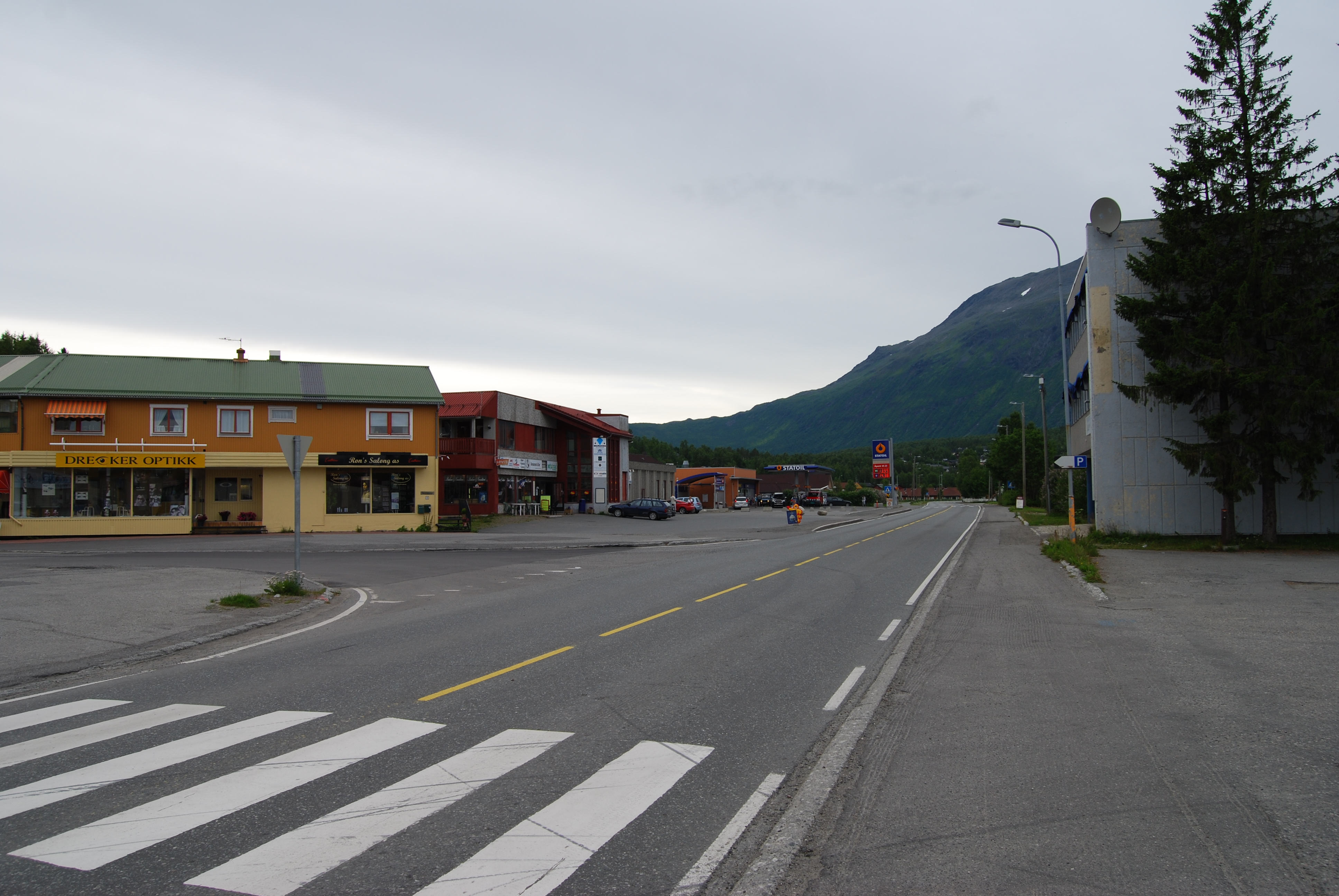 Setermoen town, Bardu municipitaly, Norway.